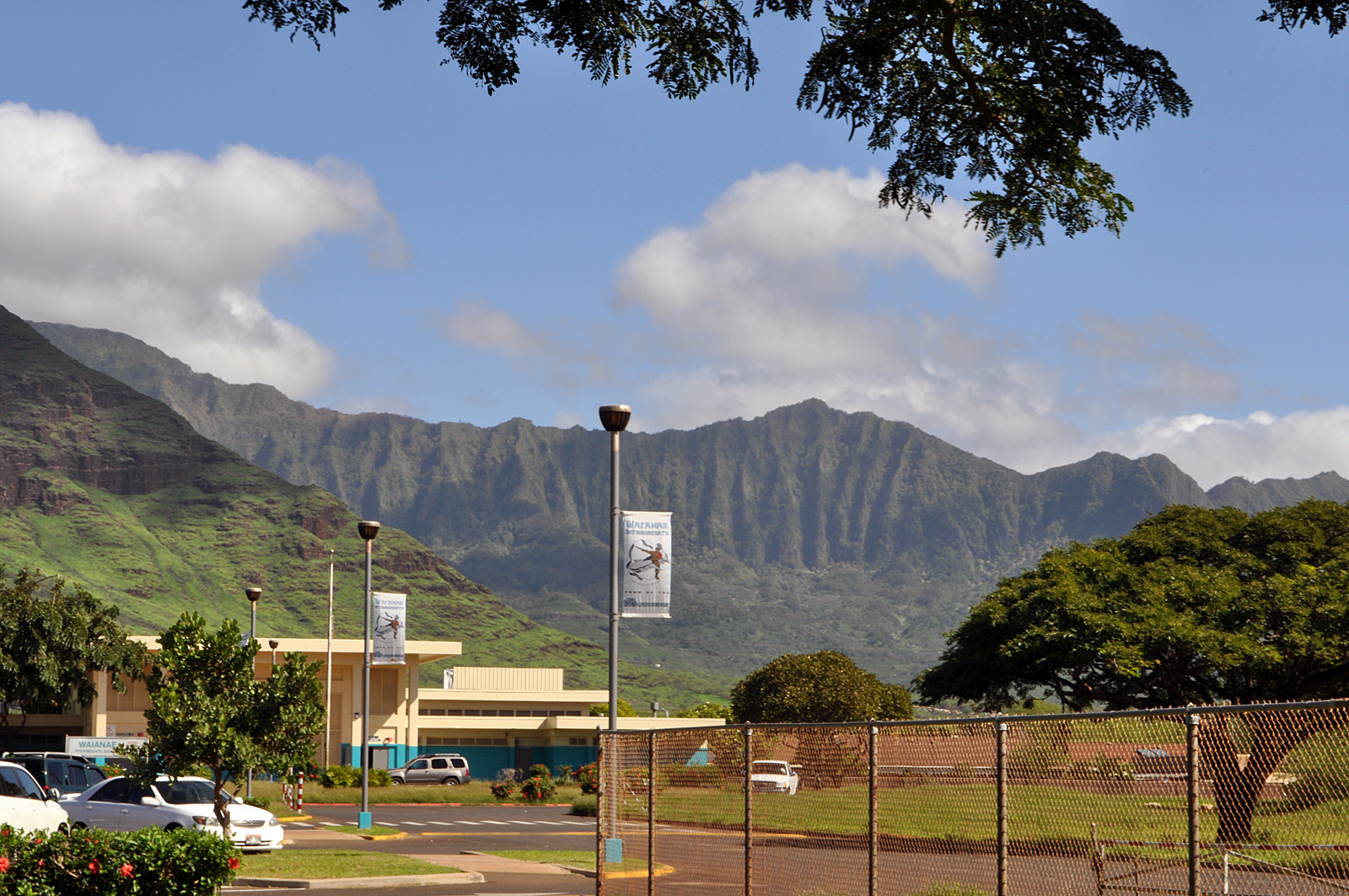 Lovely setting! Waianae is in the remote western part (Leeward Shores) of Oahu, and is far removed from the bustle, hustle, and glitz of Honolulu and Waikiki.